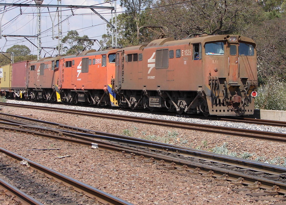 Spoornet Class 17E E1826Location: Capital Park, Pretoria, GautengReclassification: Modified and reclassified from Class 6E1 Series 7Rebuilding: E1826 re-entered service in 2007 after being rebuilt to Class 18E 18-344